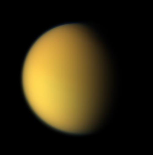 This natural color composite was taken during the Cassini spacecraft's April 16, 2005, flyby of Titan. It is a combination of images taken through three filters that are sensitive to red, green and violet light. It shows approximately what Titan would look like to the human eye: a hazy orange globe surrounded by a tenuous, bluish haze. The orange color is due to the hydrocarbon particles which make up Titan's atmospheric haze. This obscuring haze was particularly frustrating for planetary scientists following the NASA Voyager mission encounters in 1980-81. Fortunately, Cassini is able to pierce Titan's veil at infrared wavelengths (see PIA06228). North on Titan is up and tilted 30 degrees to the right. The images to create this composite were taken with the Cassini spacecraft wide angle camera on April 16, 2005, at distances ranging from approximately 173,000 to 168,200 kilometers (107,500 to 104,500 miles) from Titan and from a Sun-Titan-spacecraft, or phase, angle of 56 degrees. Resolution in the images is approximately 10 kilometers (6 miles) per pixel.